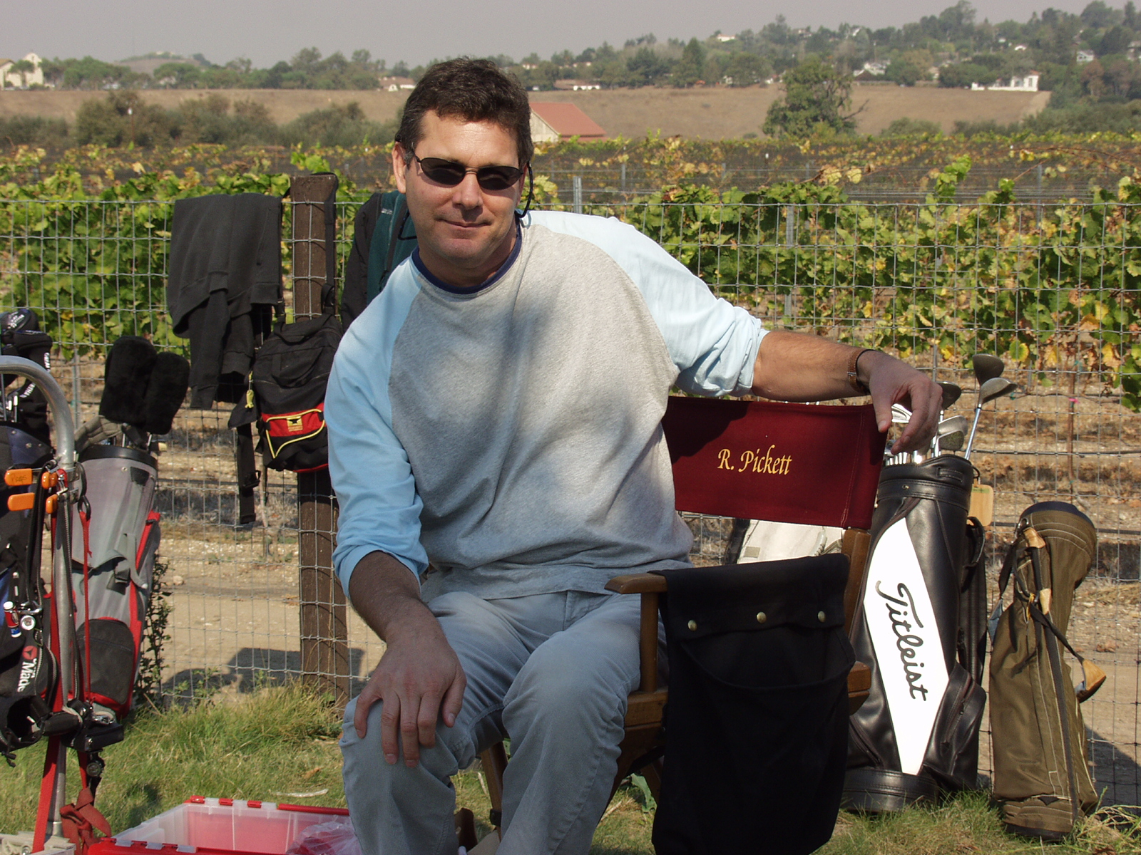 Photo of Rex Pickett on the set of "Sideways" the movie.